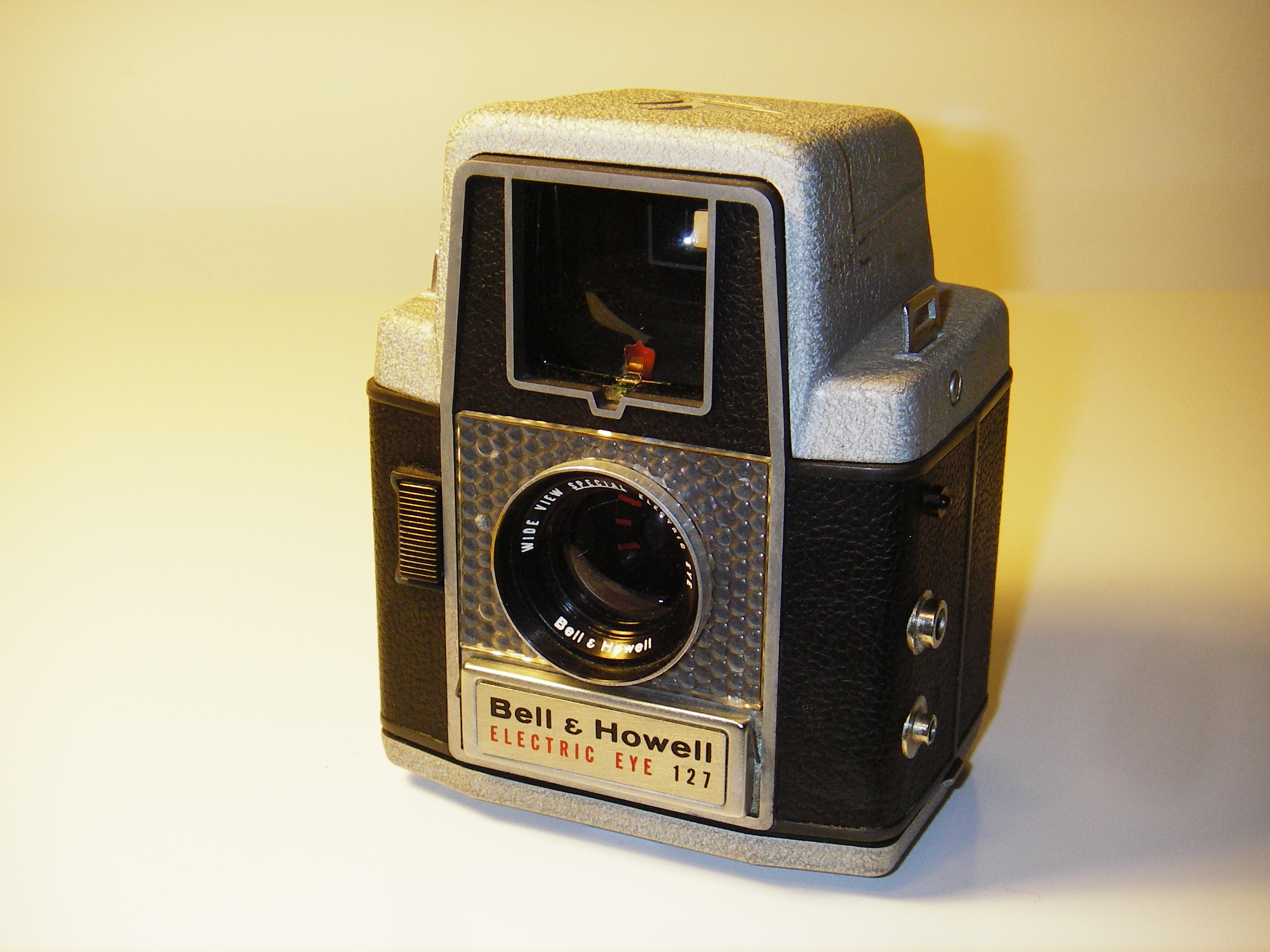 Bell & Howell Electric Eye 127. 127 film camera. Introduced circa 1958.